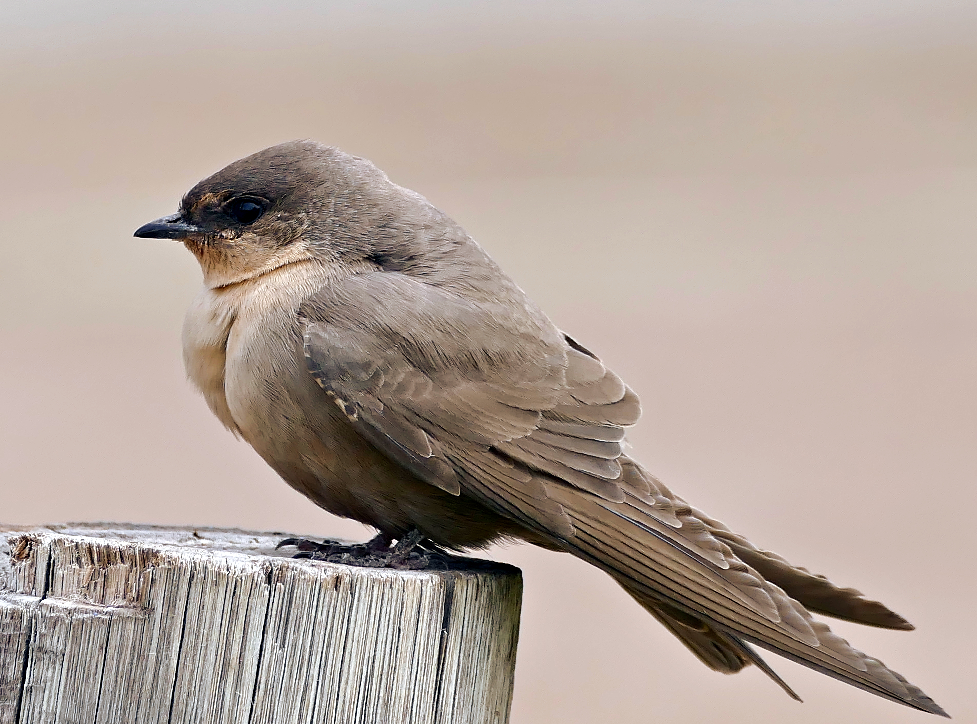 Campsite, Rest Camp, Karoo NP, Western Cape, SOUTH AFRICA